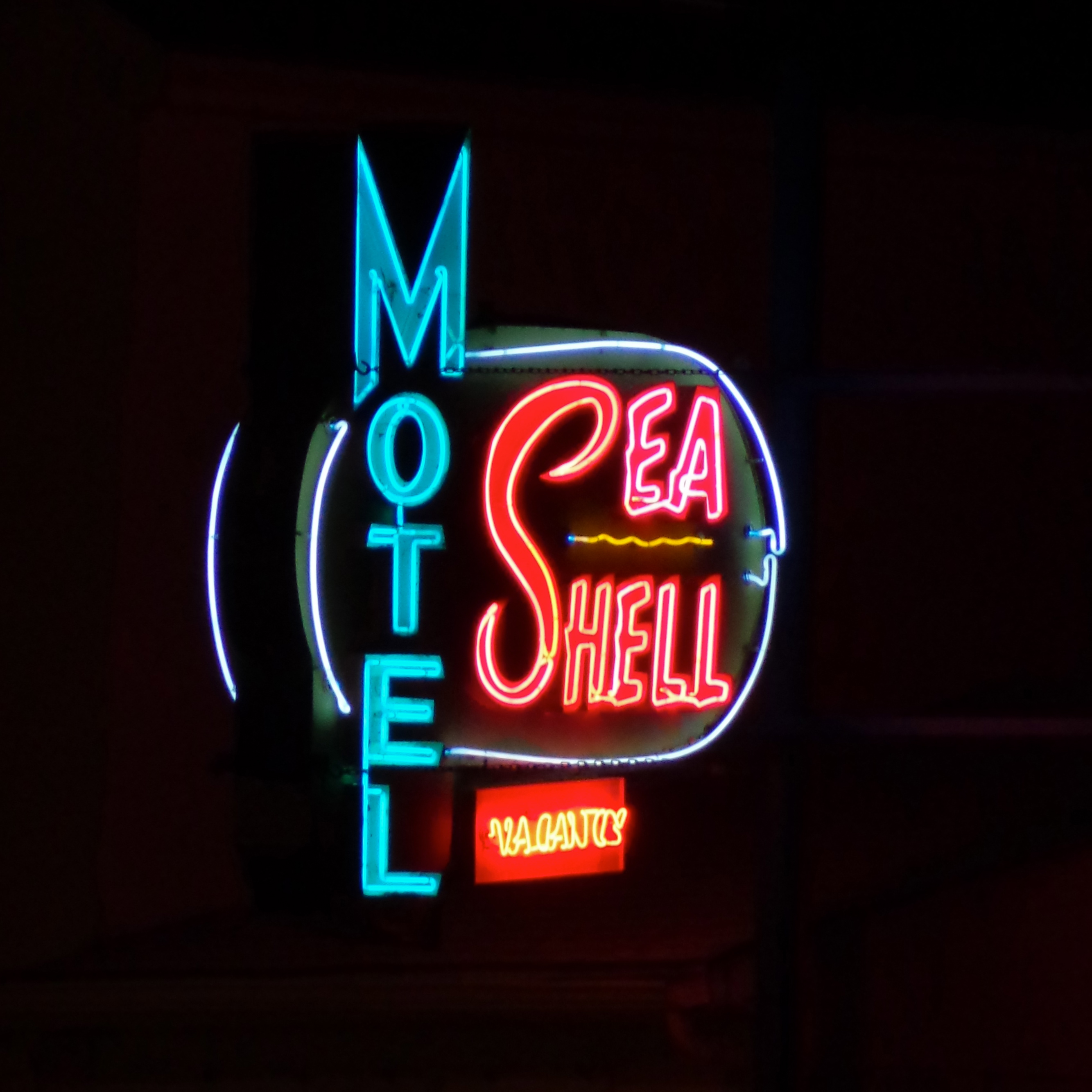 Sea Shell Motel neon sign in the Dop Wop historic district in the Wildwoods, New Jersey. This historic district consists of motels built from the 1950s through early 1970s is famous for its neon signs